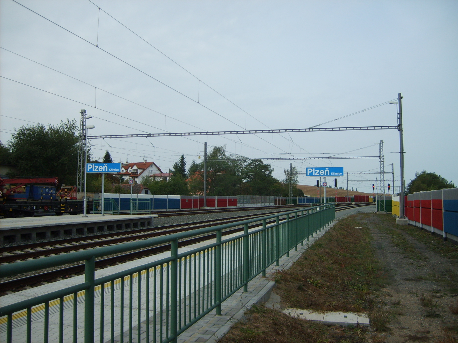 Railway station Plzeň-Křimice, railway line 170, the Czech Republic